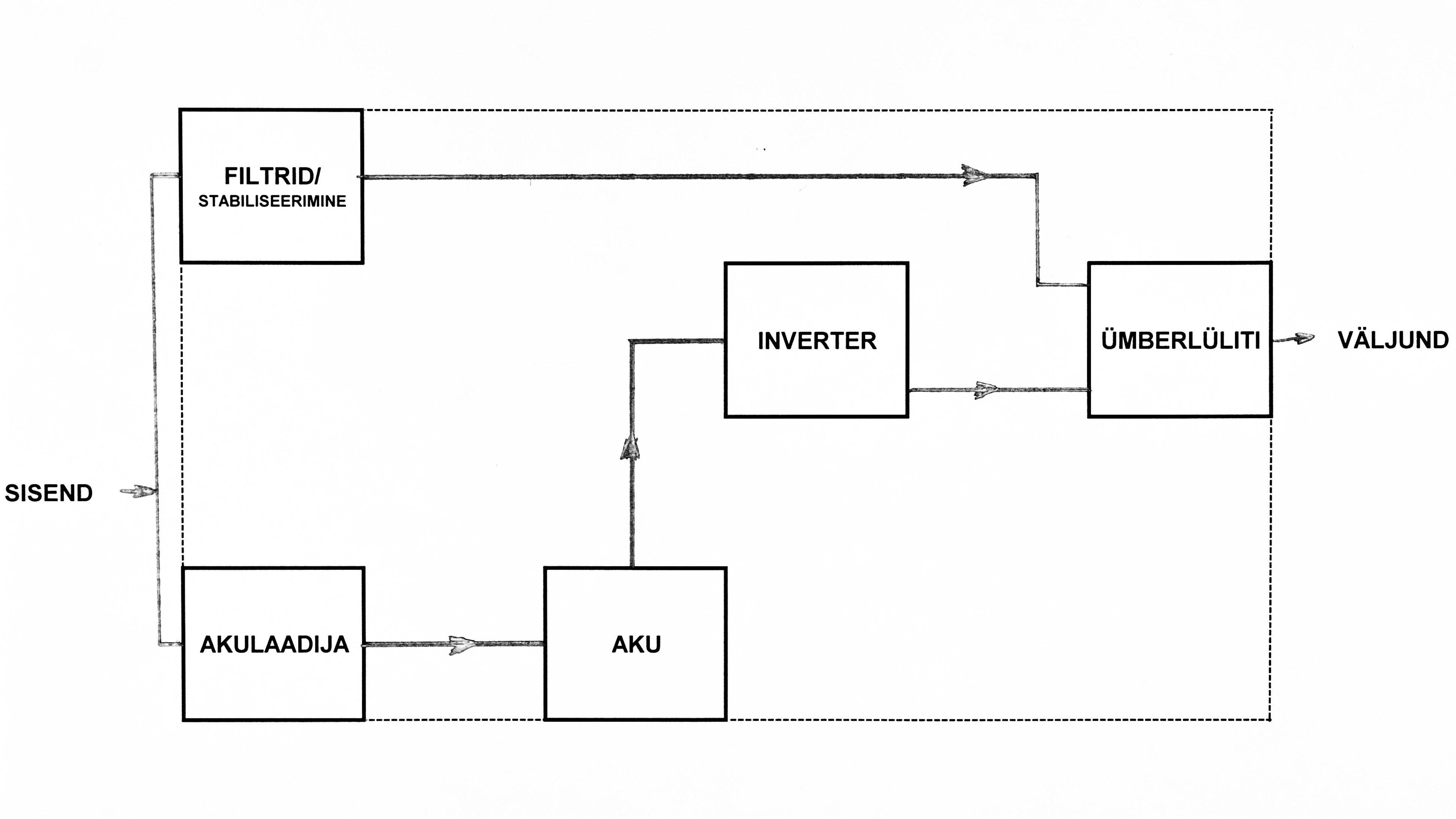 OFFLINE UPS